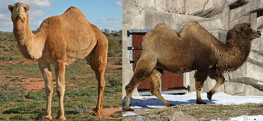 Diorama to allow for easy comparison between dromedary and bactrian camels